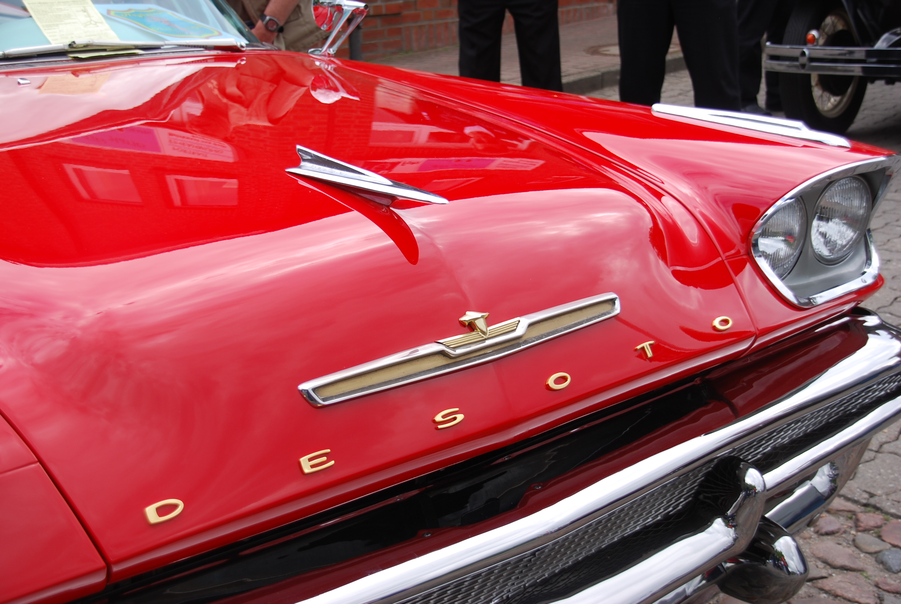 1958 De Soto Fireflite, Front view